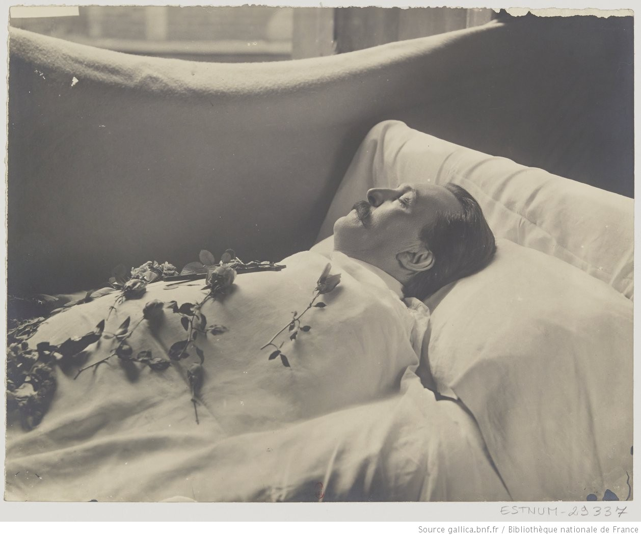 French artist Gustave Doré photographed on his deathbed.